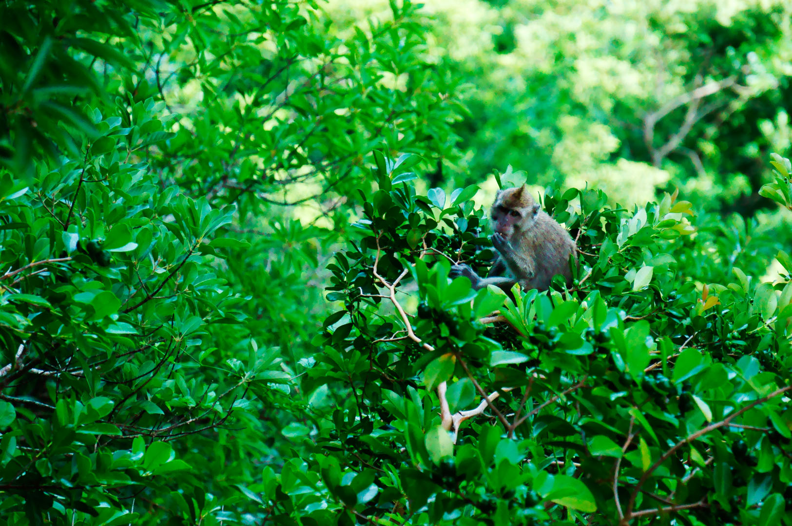 Primates at Black River, Mauritius